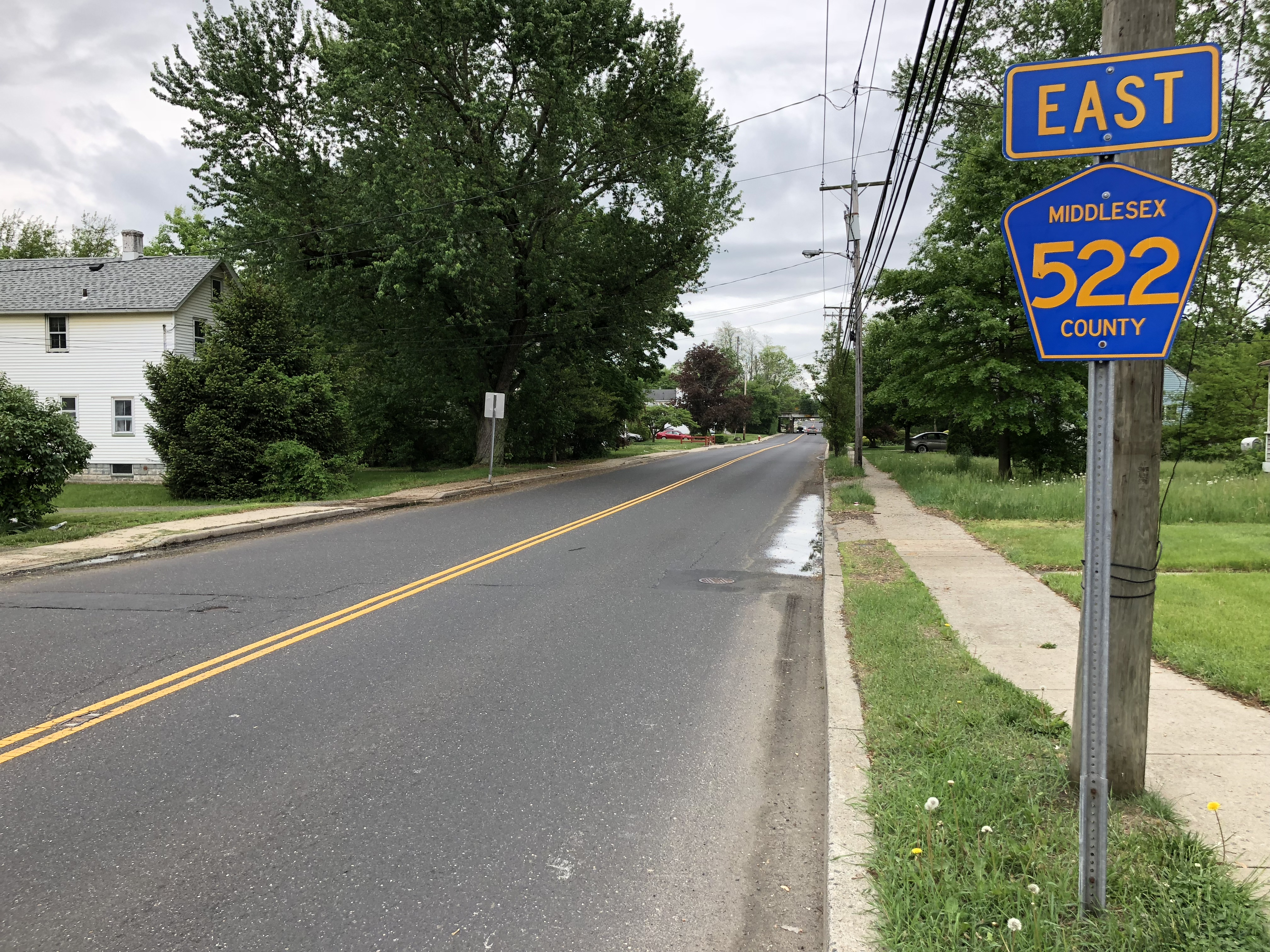 View east along Middlesex County Route 522 (Gatzmer Avenue) at Pergola Street in Jamesburg, Middlesex County, New Jersey